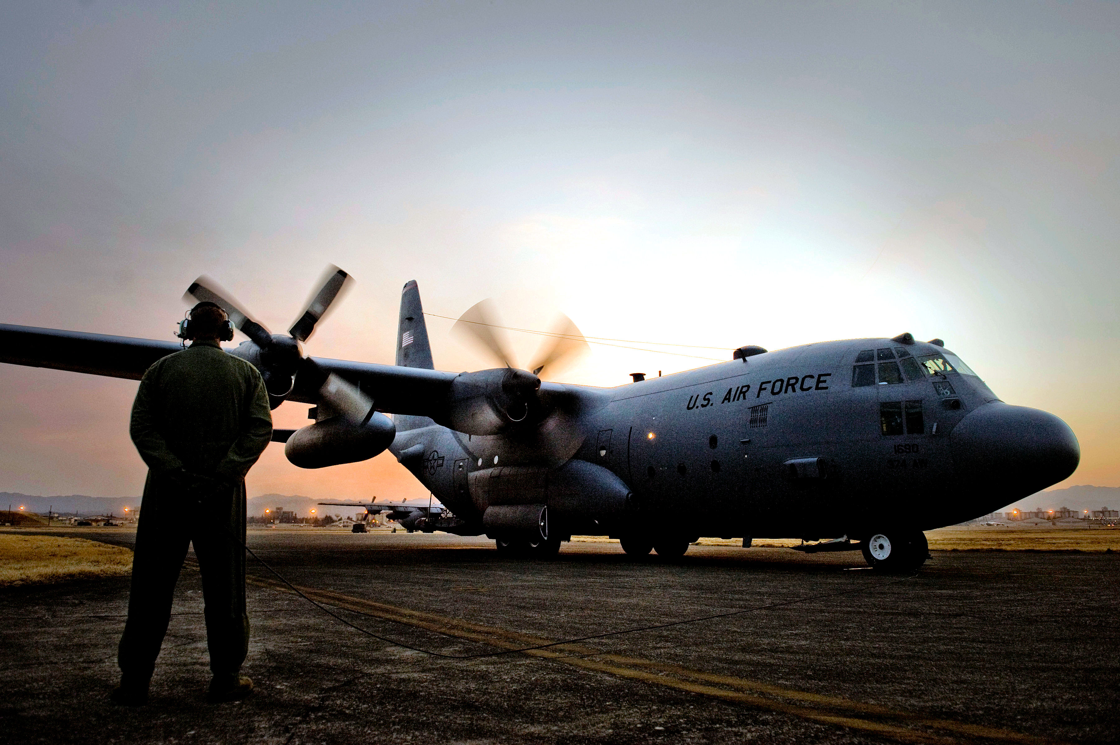 YOKOTA AIR BASE, Japan -- Staff Sgt. Charles Kirchen, 36th Airlift Squadron, watches as the engines start up on a C-130H Hercules March 19 before a mission. Medical supplies were flown to Sendai and Hanamaki Airport to be distributed to local hospitals and evacuation centers as part of Operation Tomodachi. (U.S. Air Force photo/Staff Sgt. Jonathan Steffen)